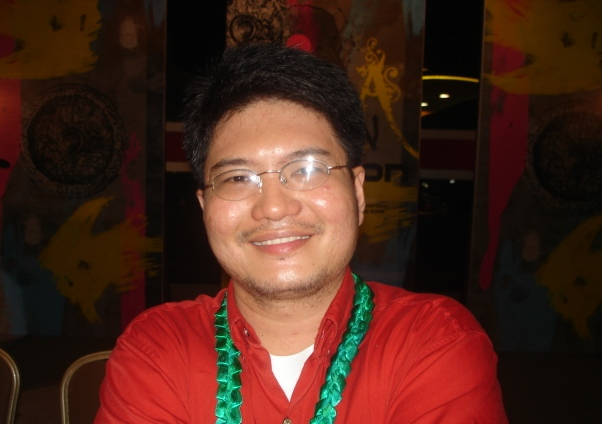 Bikol Central: Jason Chancoco